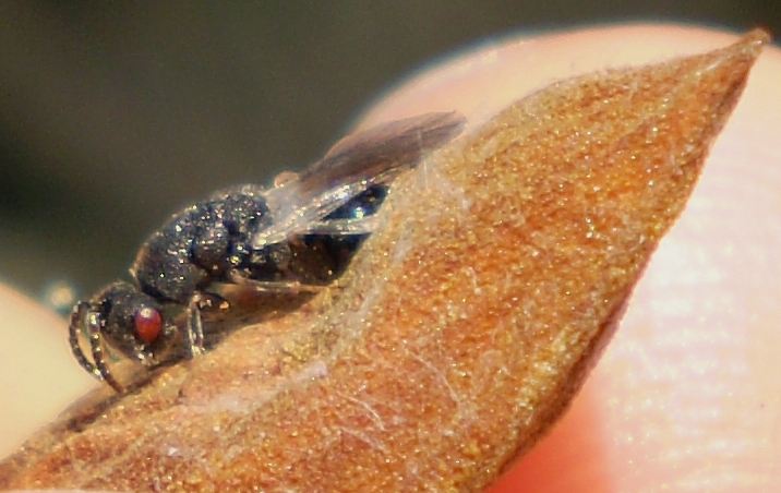 Emergence of Eurytoma amygdali Female from an almond of Prunus dulcis, at the beginning of march.